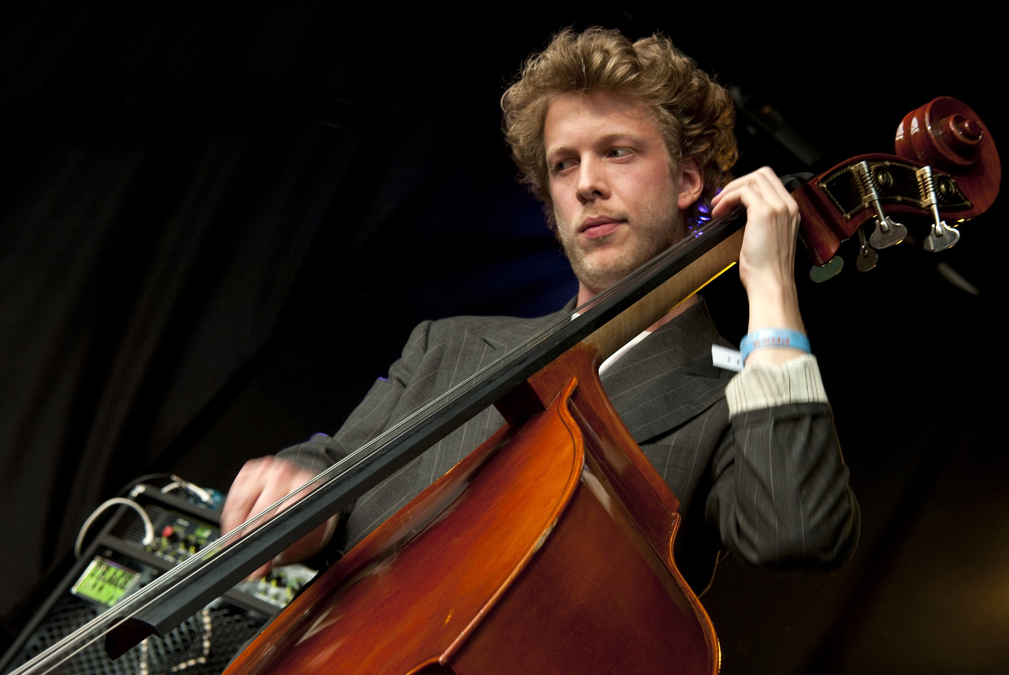 Musicians Cambridge Festivals 2001-2014